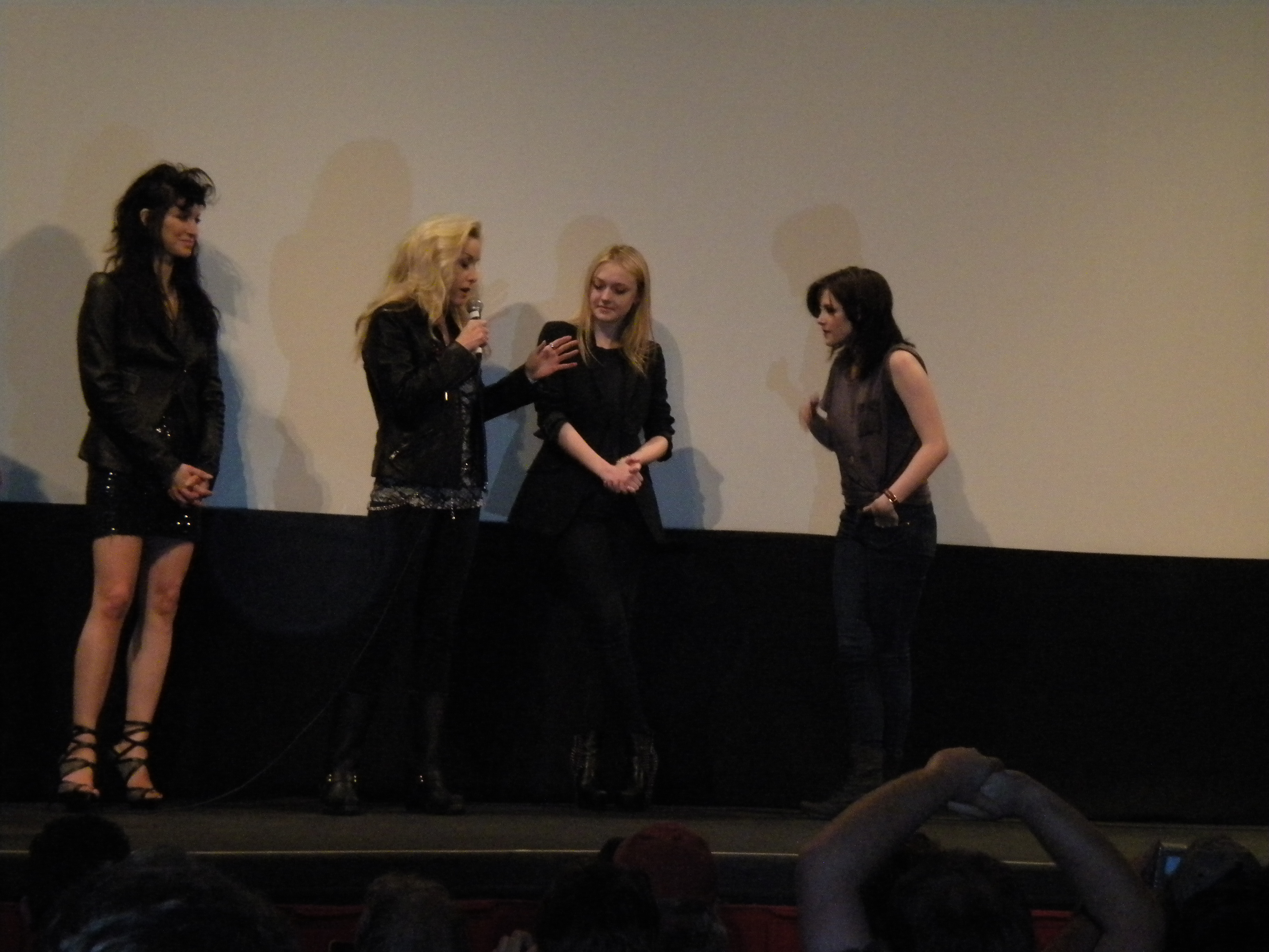 At SXSW 2010 screening of "The Runaways"